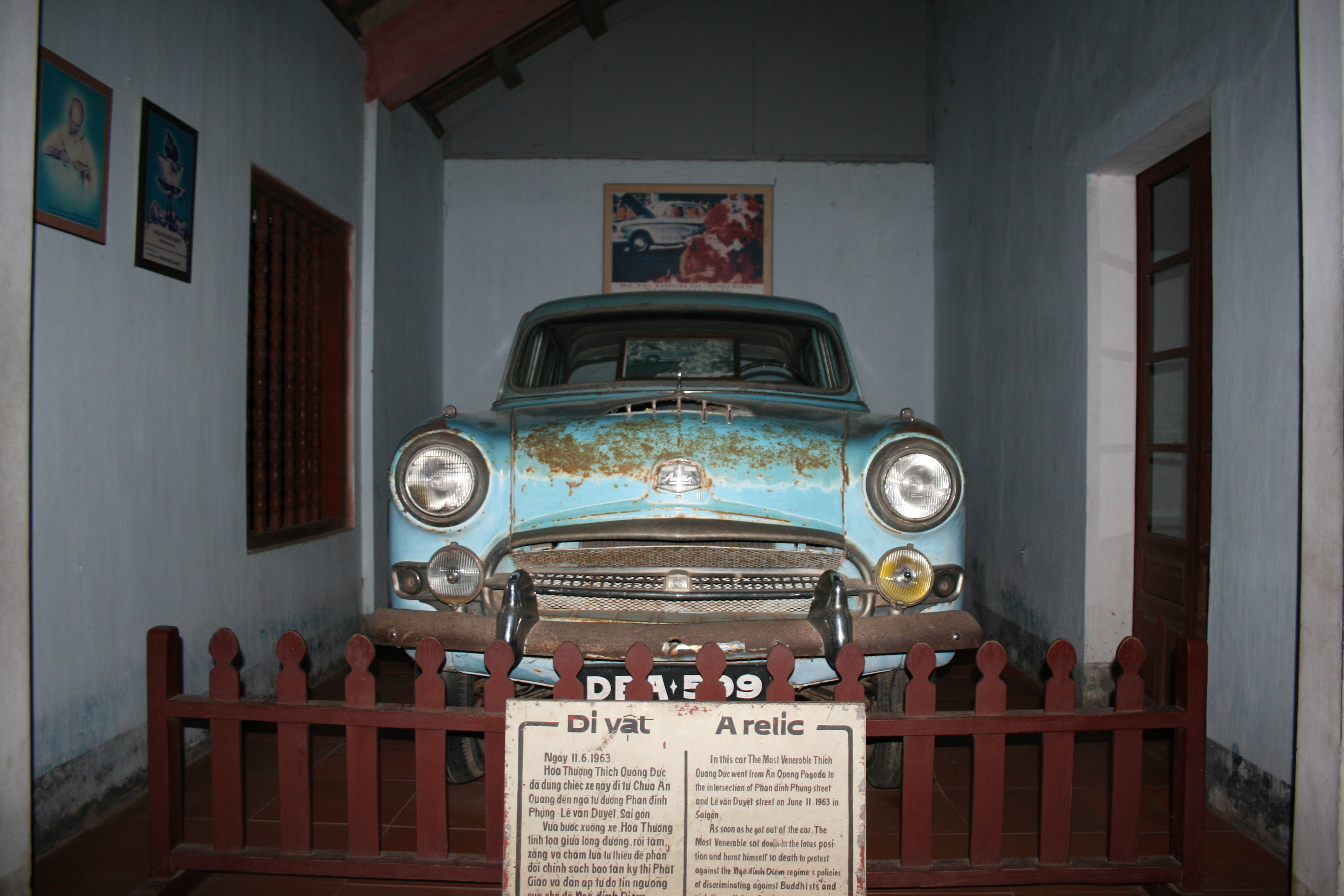 Thích Quảng Đức's car at temple of literature of Hue (1956 Austin A95 Saloon)(picture captured in 2008). There are clues that, in 2005, Thích Quảng Đức's car is not at temple of literature of Hue, but at Thien Mu pagoda. See Chùa Thiên Mụ and Thích Quảng Đức.